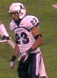 San Jose State Spartans football vs Utah State Aggies football